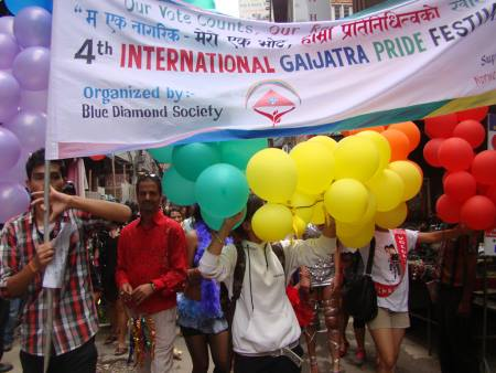 This picture is the 4th pride festival in Nepal.